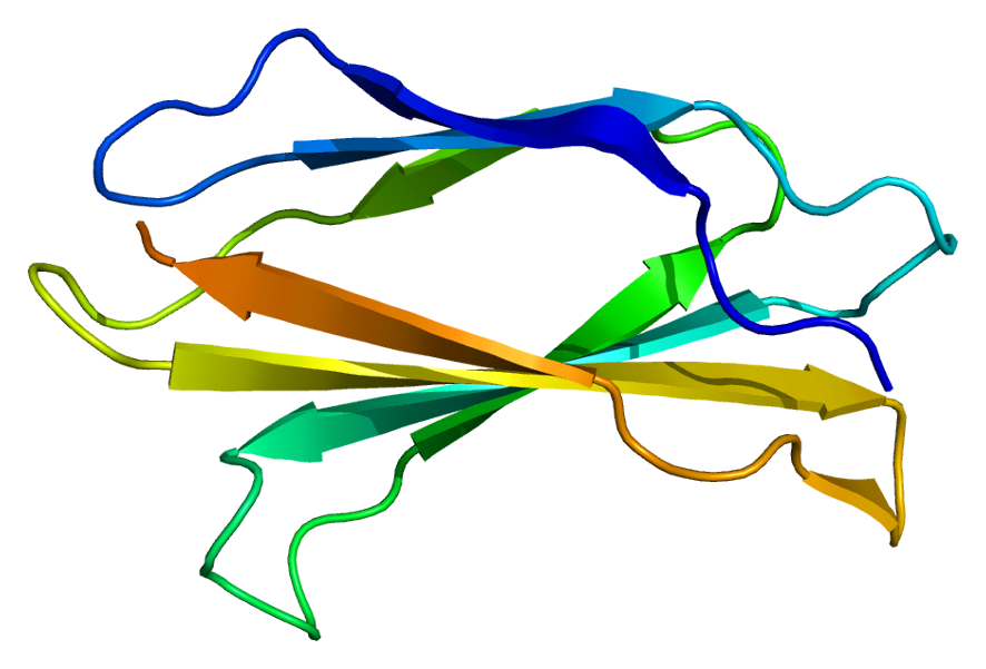 Structure of the TNC protein. Based on PyMOL rendering of PDB 1ten.